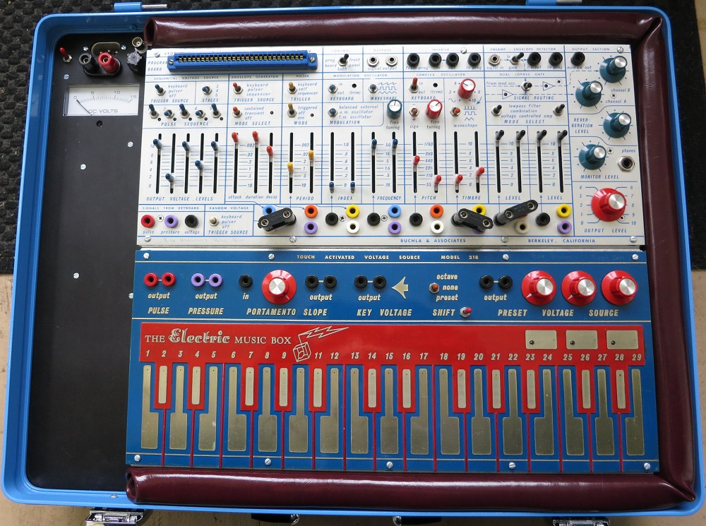 The Buchla Music Easel, a 1973 instrument combining the 208 Stored Program Sound Source and 218 Touch Activated Voltage Source in an aluminum case with power supply.